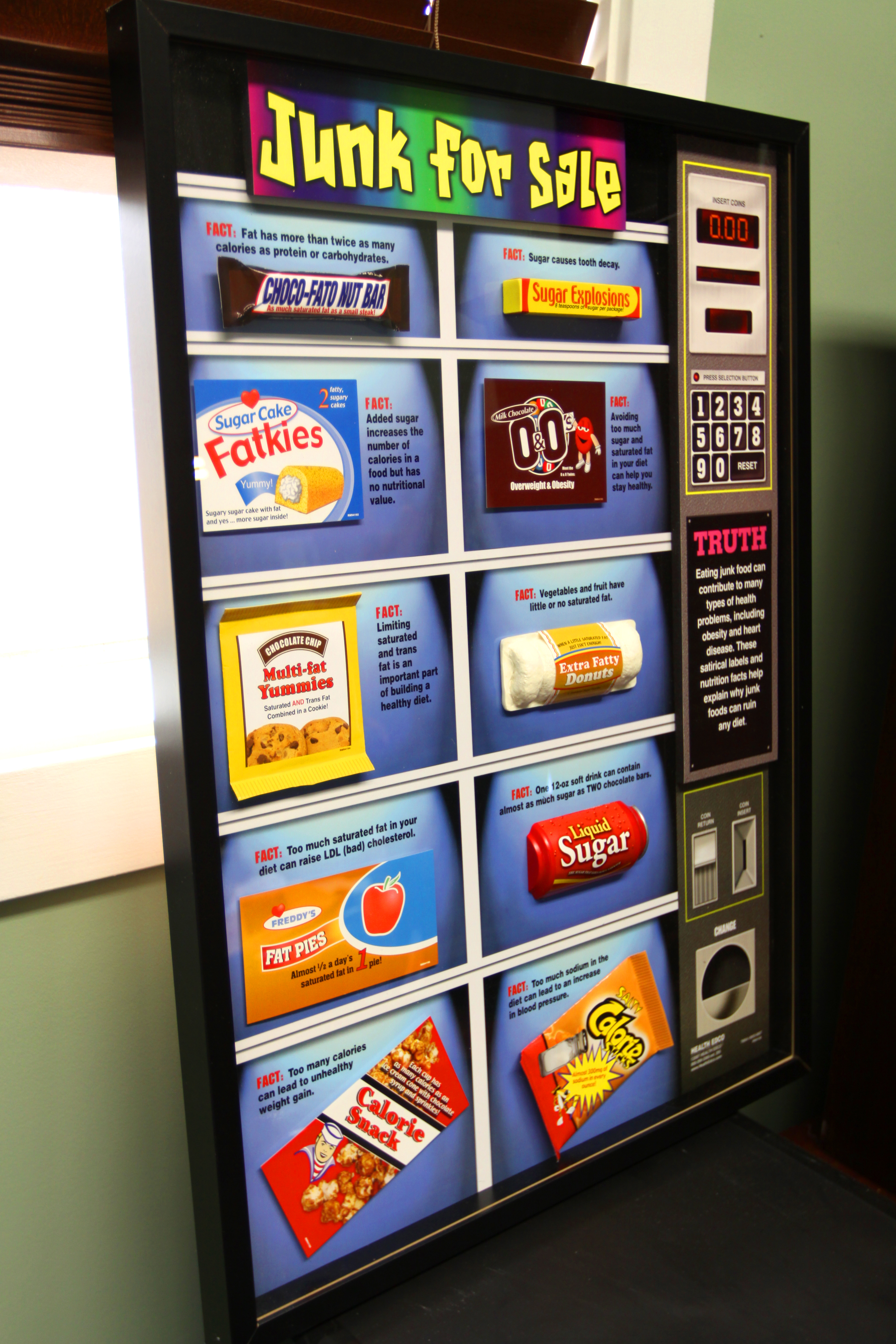 A poster at Camp Pendleton’s 21-Area Health Promotion Center describes the effects of junk food that many Marines and sailors consume. This center is located inside the Single Marine Program Recreation Center and is one of three branches on base. Health specialist at each location conducts a variety of tests to help guide service members make healthier decisions.